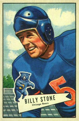 American football player Billy Stone (American football) on a 1952 Bowman Large card.